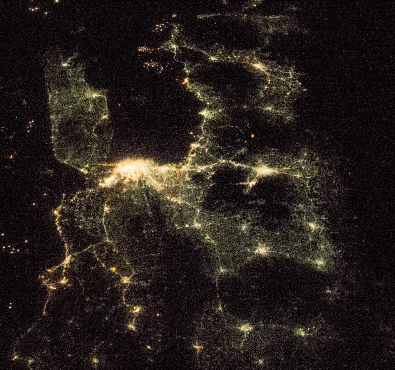 Greater Surabaya area, seen from the International Space Station. The Island of Madura is in the top left